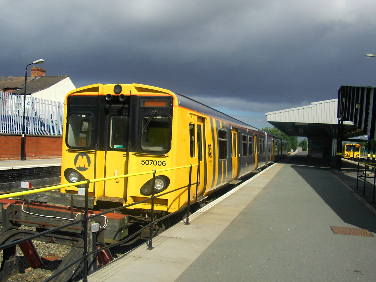 Merseyrail class 507 (unit #507006) at Rock Ferry railway station, not in use due to less active sunday service.